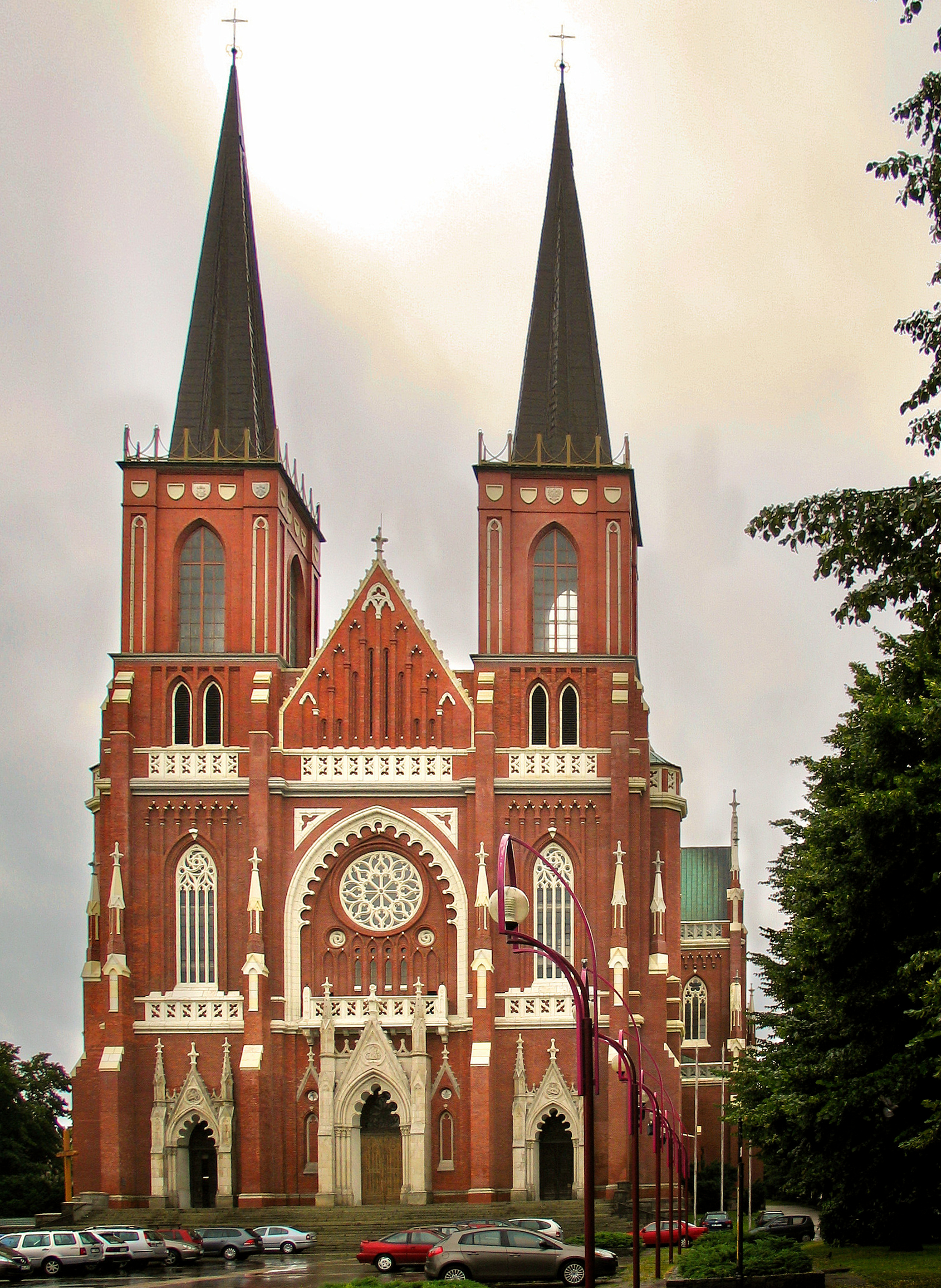 Cathedral Basilica of the Holy Family in Częstochowa seen from the square, John Paul II.